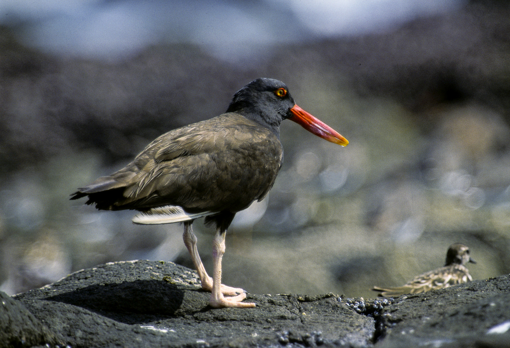 Blackish Oystercatcher - Chile